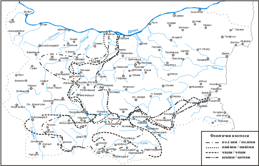 Map showing phonological isoglosses of Bulgarian speech.